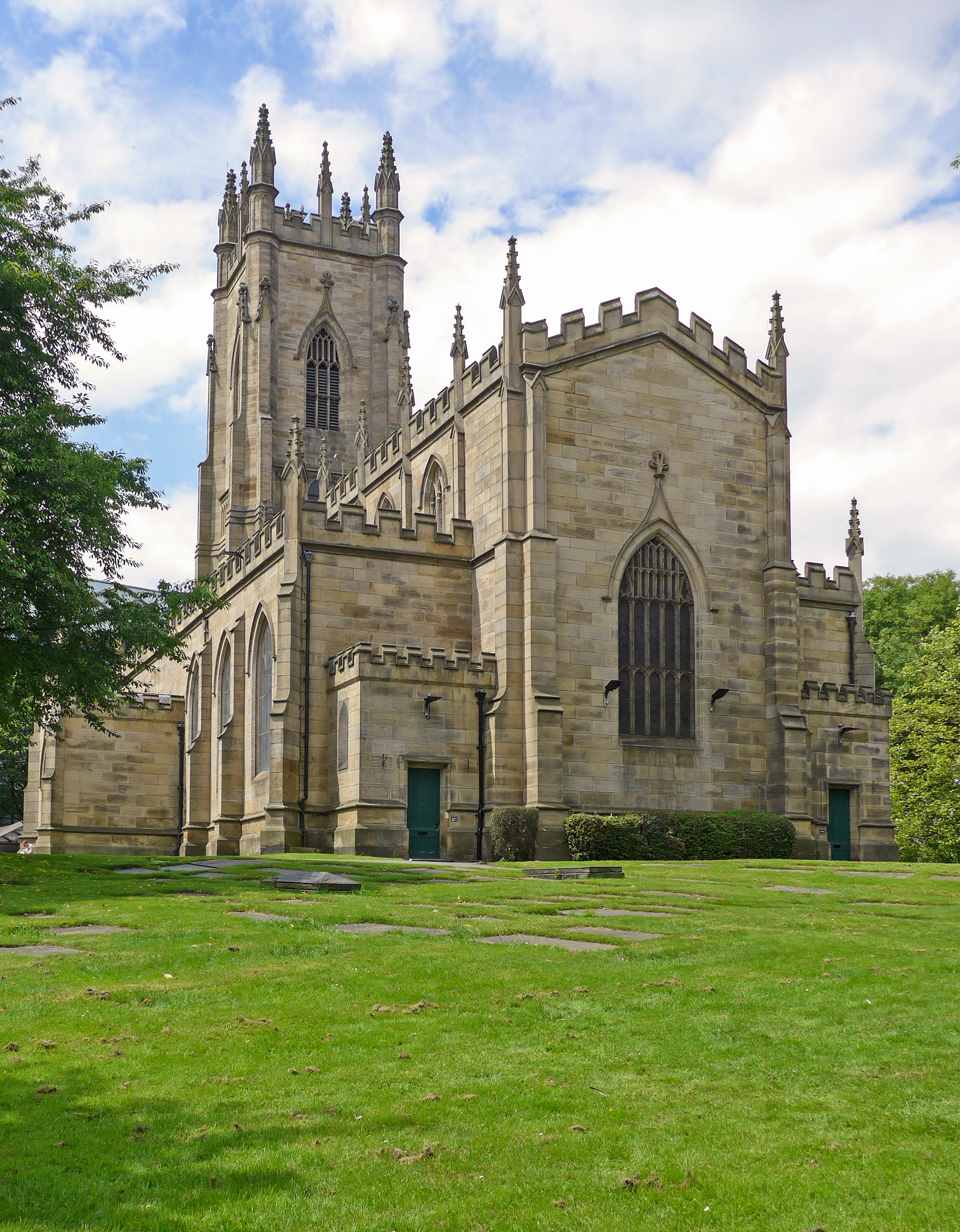 Former parish church of St George, Sheffield, South Yorkshire, seen from east-southeast